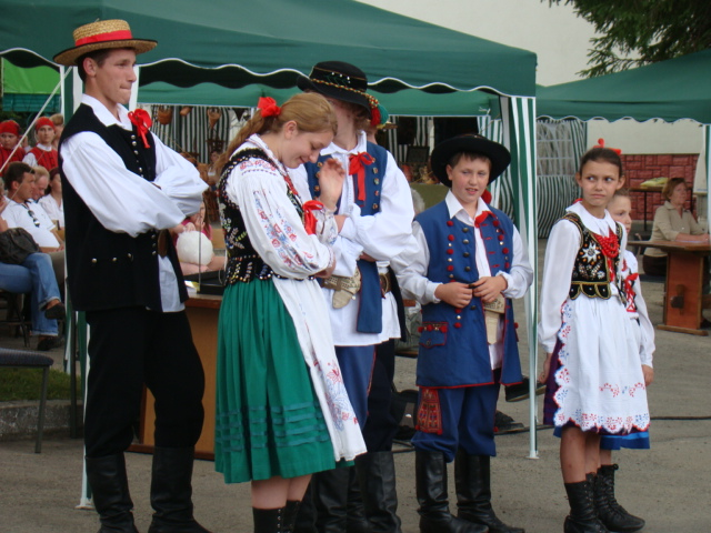 Polish Uplanders (West Galicia) - Przeworsk area